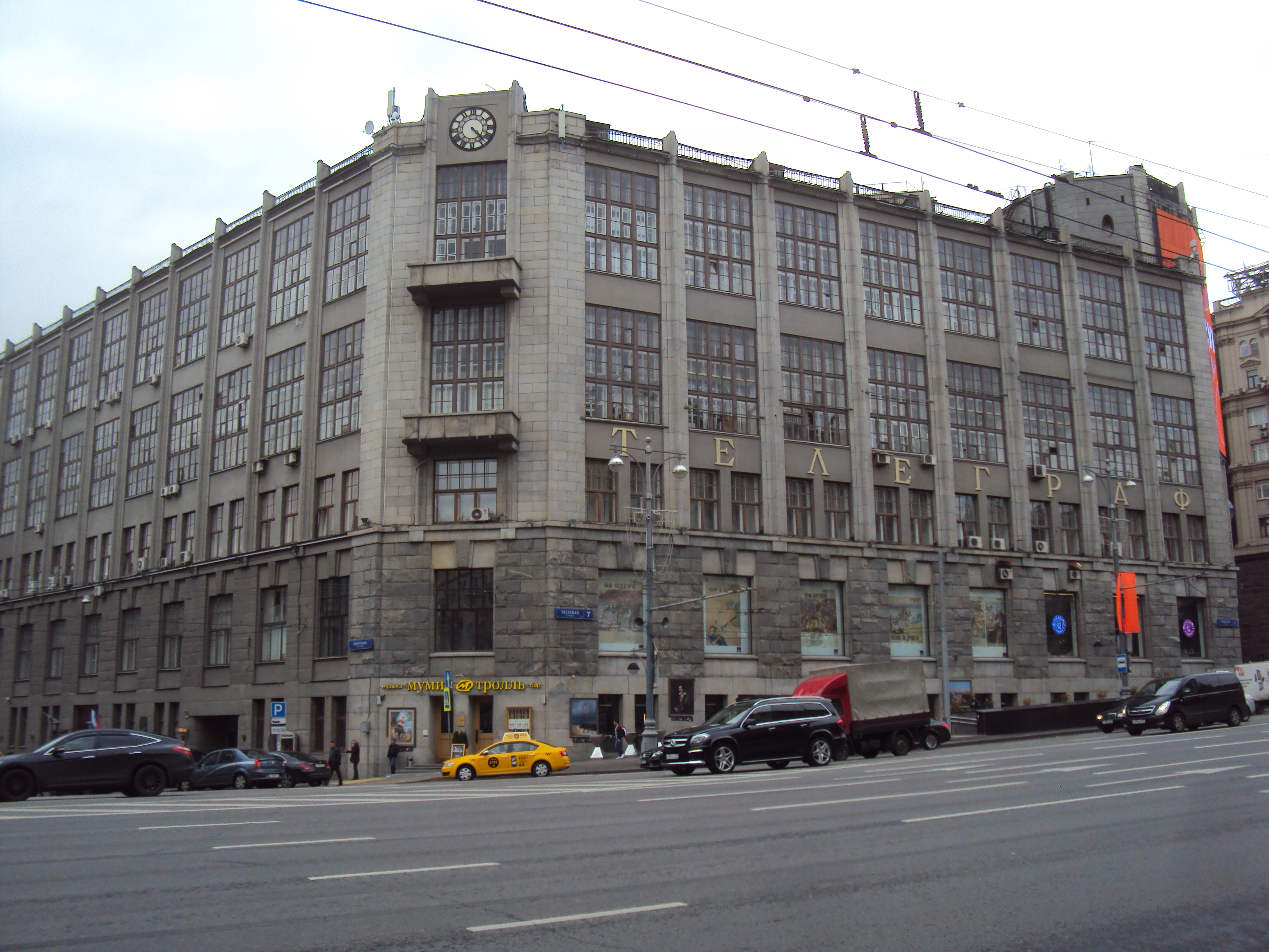 The building of the Central Telegraph